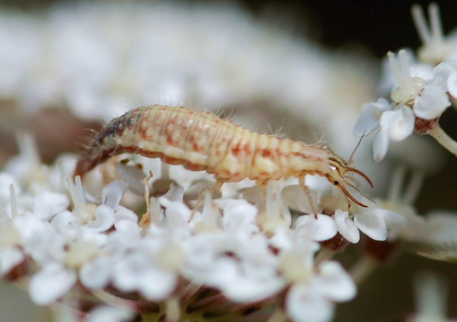 Larva of a lacewing (Chrysopidae)